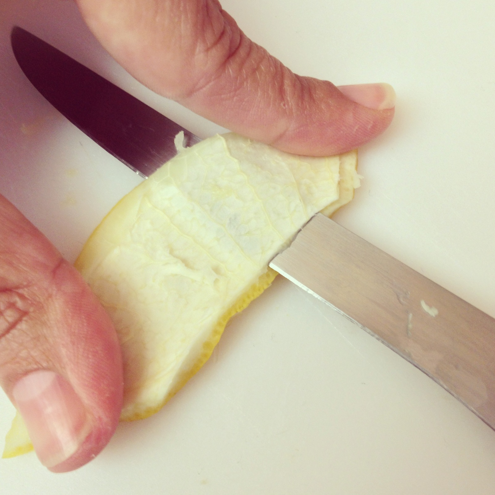 Brook had let me know that she really likes the recipe of Elizabeth Fields, author of Marmalade (amzn.to/VHPDlv). And so I found this recipe of hers online bit.ly/YSzuKM and decided to give it a try. It meant more work, but I tried to carefully remove as much pith as I could from the peel using this flexible filet-style knife.